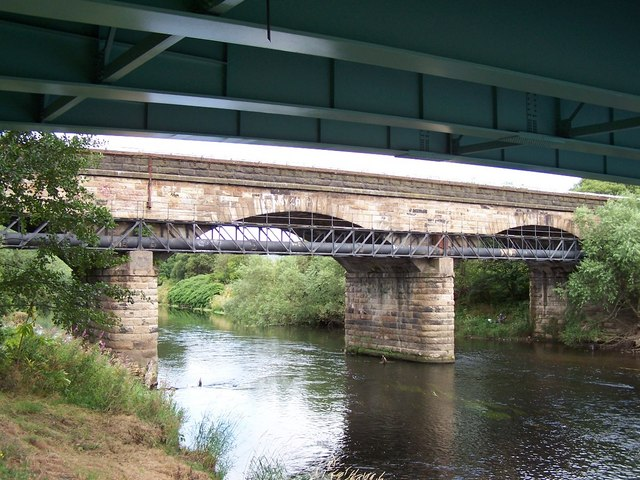 Railway Viaduct near Carmyle. Spans the River Clyde